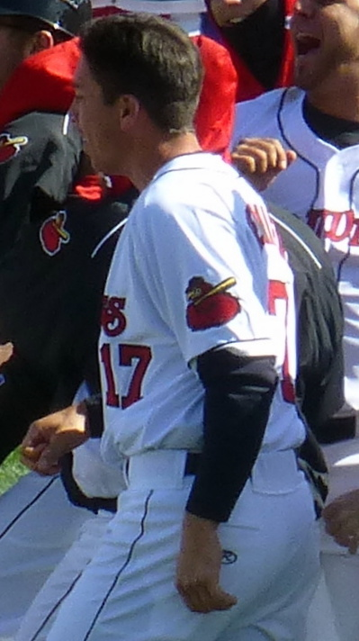 The Rochester Red Wings celebrate after Josmil Pinto (far left) hits a walkoff home run to end a 2015 game at Frontier Field in Rochester.